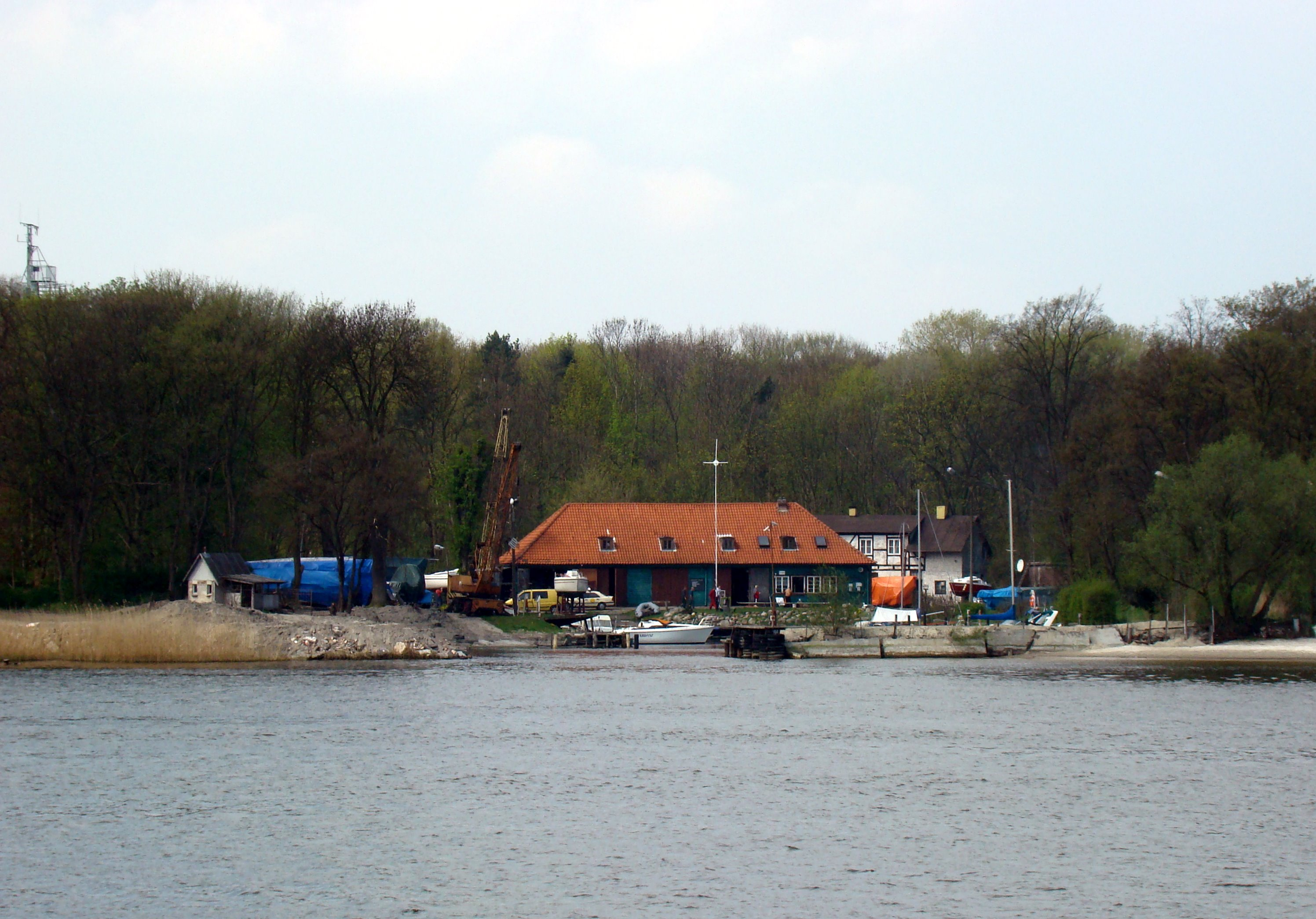 Jacht Klub Cztery Wiatry (Marina) in Swinoujscie, Poland